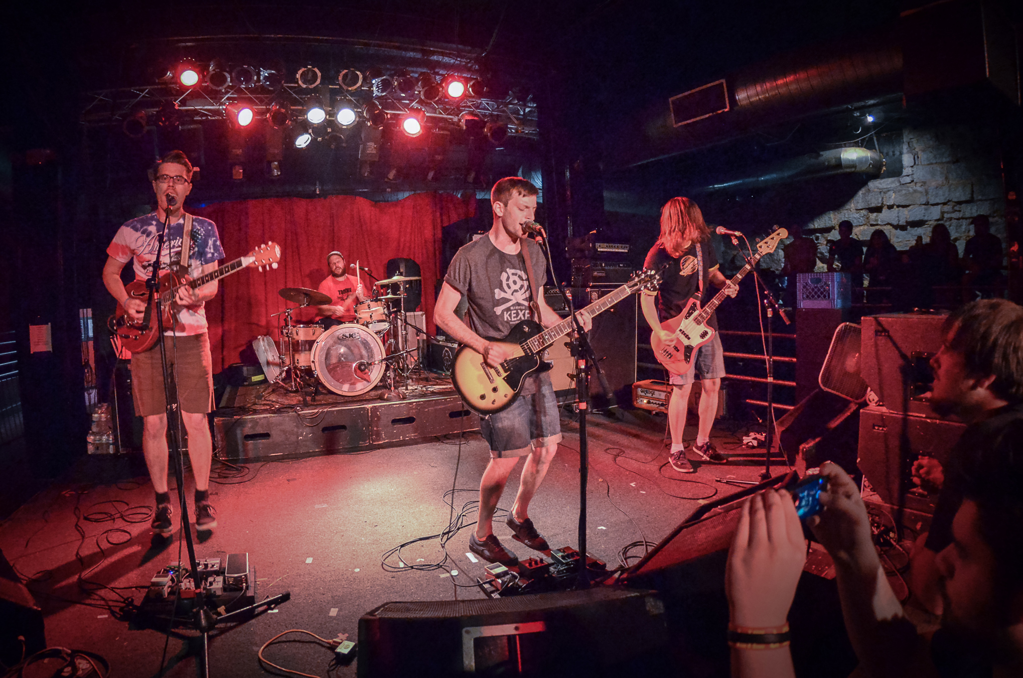 Punk rock group PUP performing at The Masquerade in Atlanta on July 4, 2014.